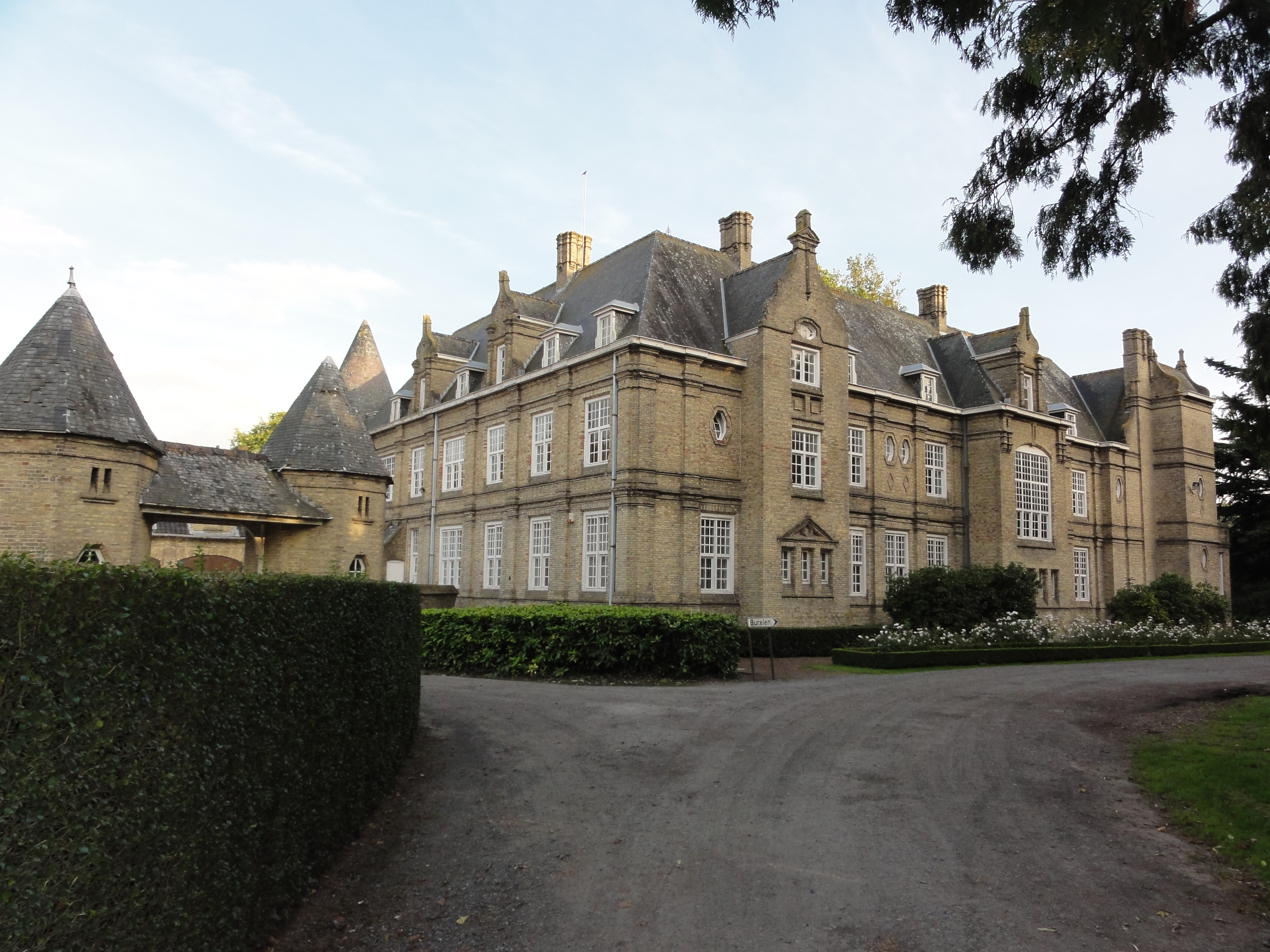 Castle De Warande in Kemmel, now town hall of Heuvelland. Kemmel, Heuvelland, West Flanders, Belgium